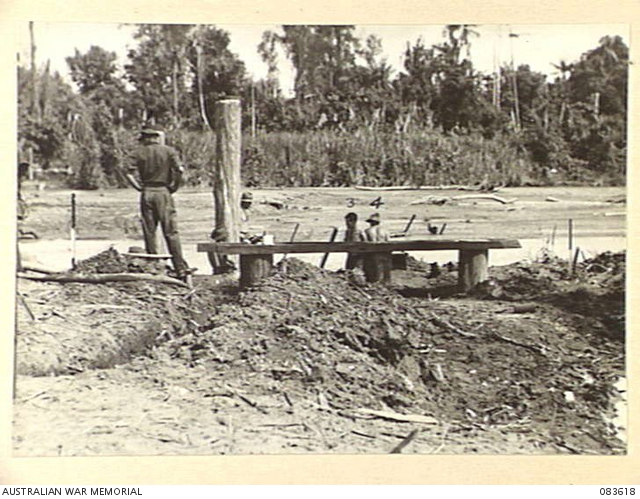 DRINIUMOR RIVER, NEW GUINEA. 1944-11-23. THE FIRST PILE ABUTMENTS BEING POSITIONED BY 2/8 FIELD COMPANY, ROYAL AUSTRALIAN ENGINEERS, TROOPS DURING THE INITIAL STAGES OF CONSTRUCTING A BRIDGE ACROSS THE RIVER.